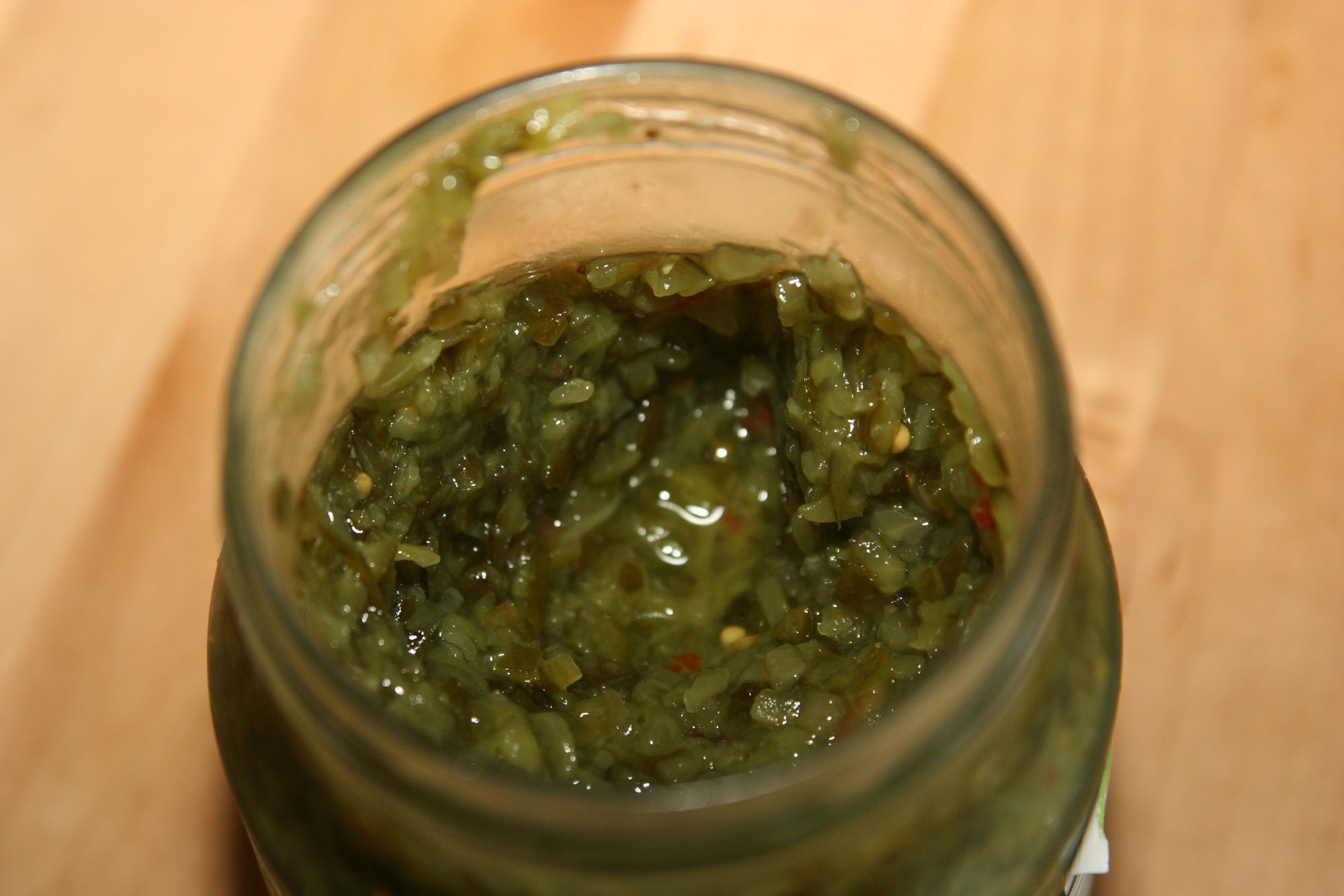 Jar with chopped pickles